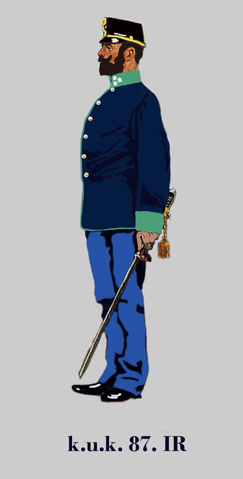 Captain of the Austria-Hungarian (k.u.k.). 87th german Infantry Regiment in Service dress 1914